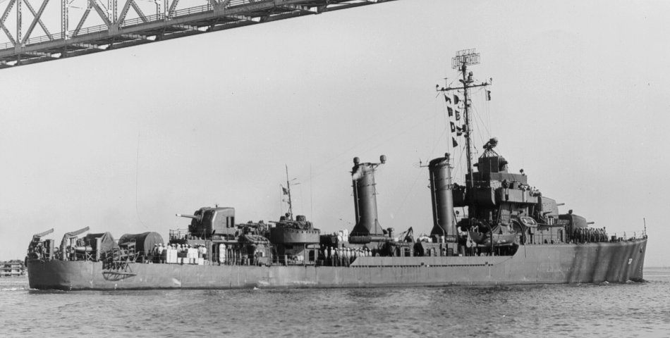 The U.S. Navy destroyer minesweeper USS Davison (DMS-37, ex-DD-618) off Charleston Navy Yard, 28 July 1945.